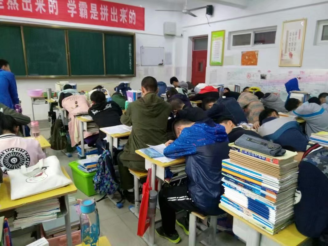 教室里的同学